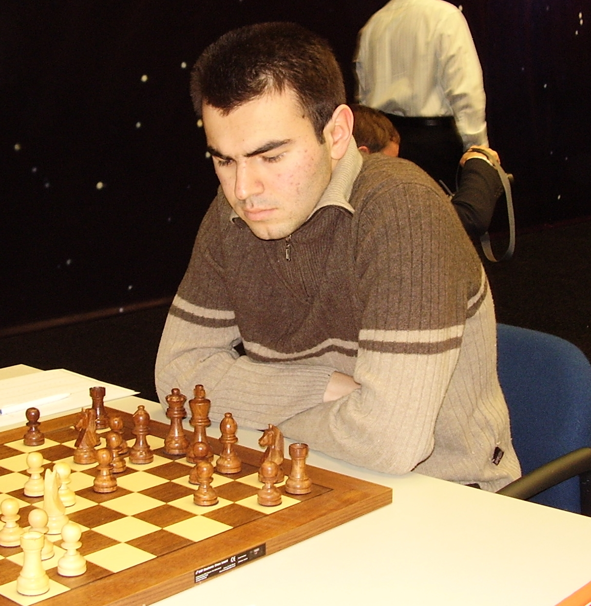 S. Mammadyarov at Corus tournament, January 2006. Own photo